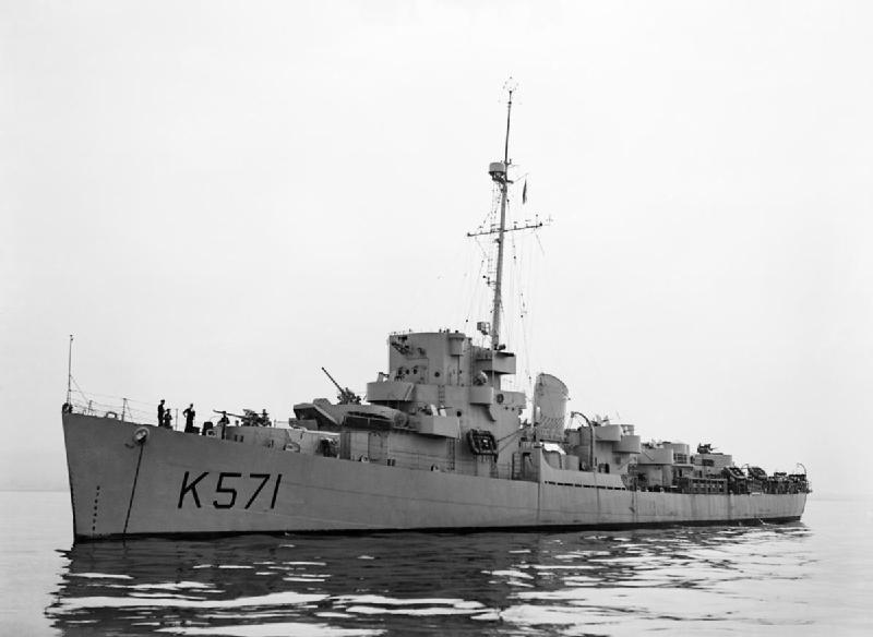 Photograph of Captain class frigate HMS Inman, off Greenock.